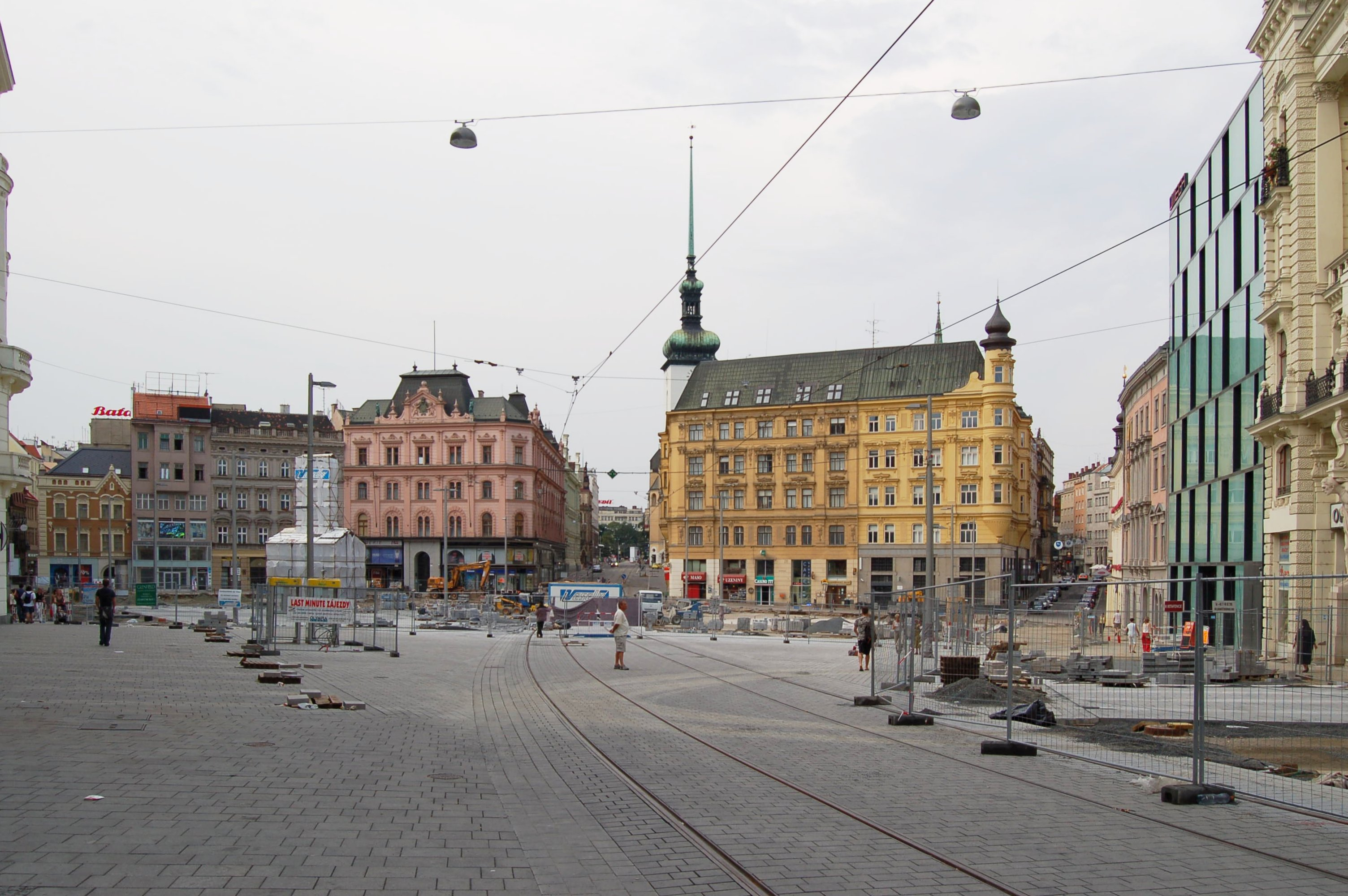 Buildings in the center of the Czech city Brno.